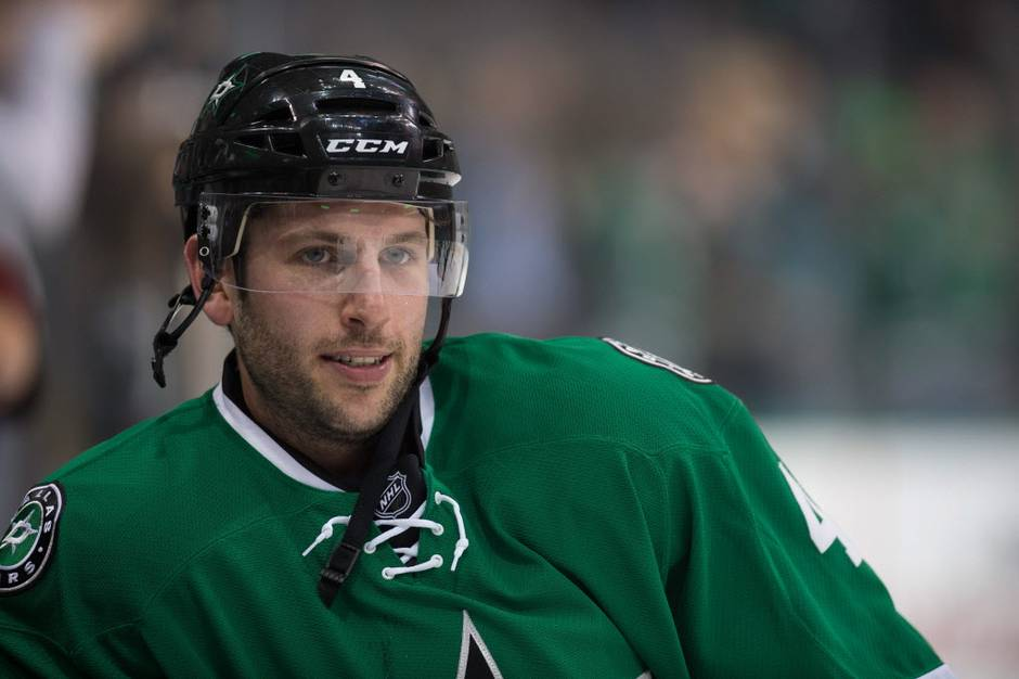 Demers with the Dallas Stars in 2014